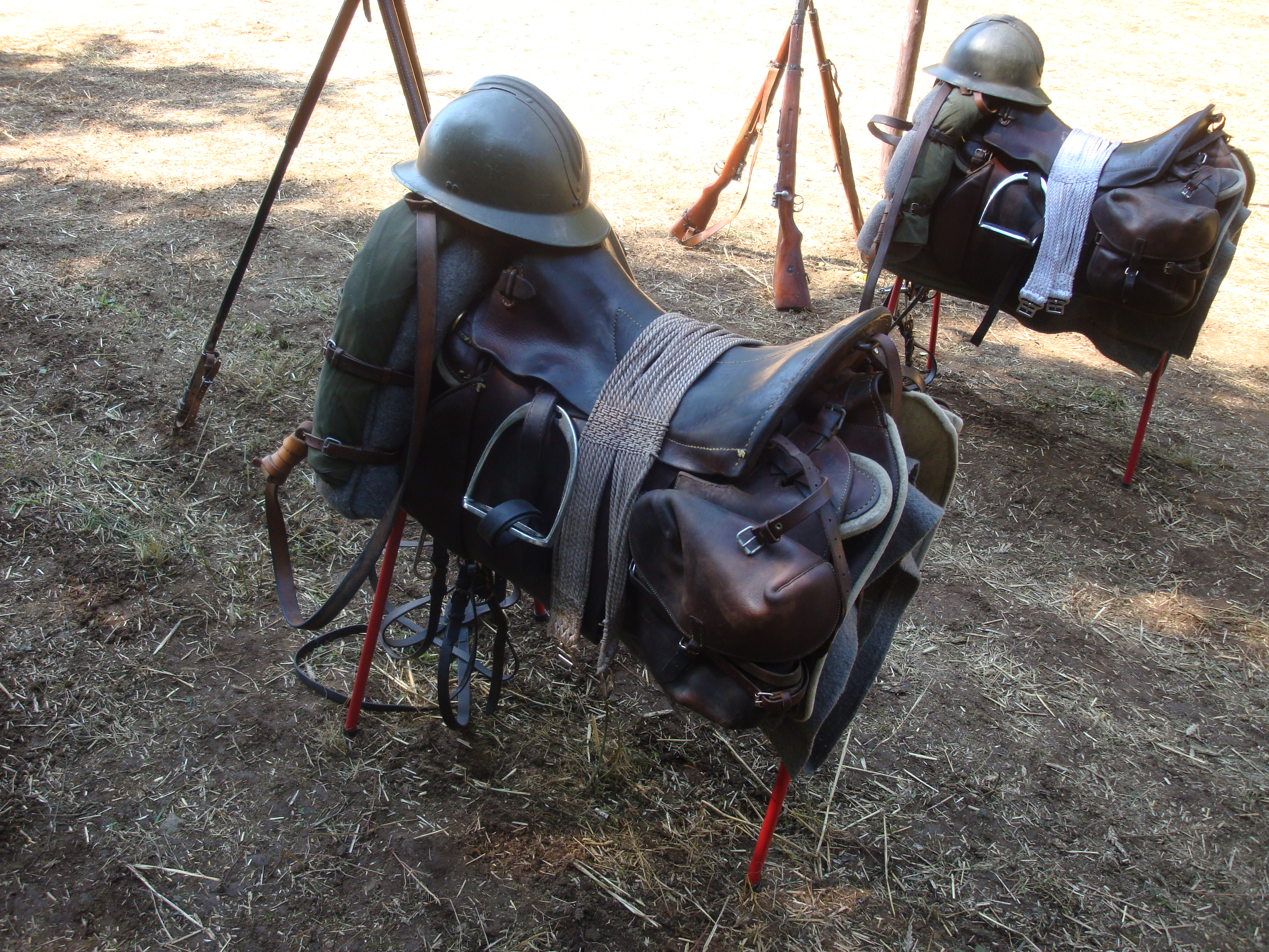 Horse tack of Polish Uhlan 8 Regiment (1921-39). Recontruction for reenactment group